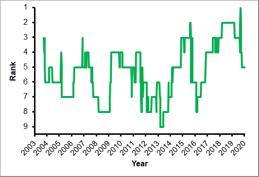 RB World Rankings from